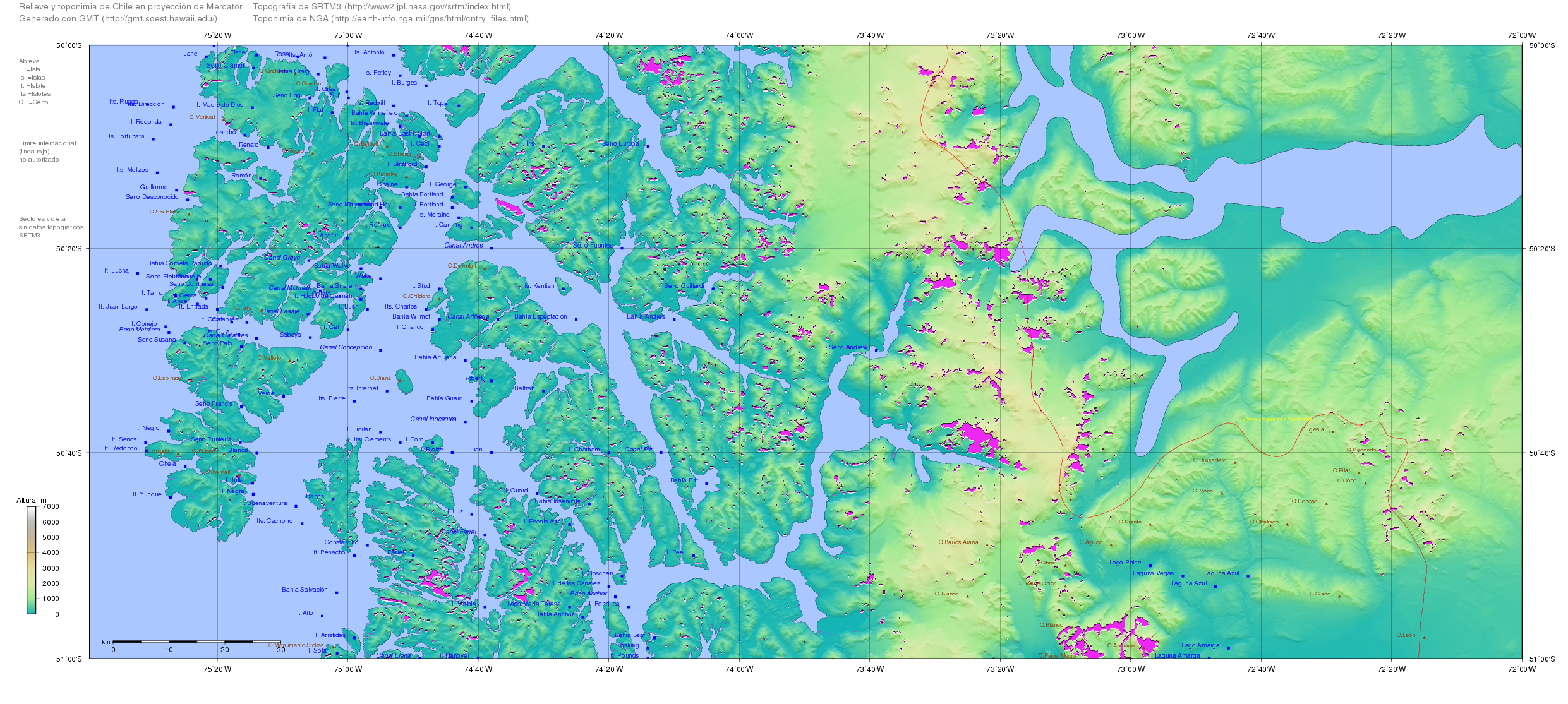 Map of Chile generated with GMT ( topography from SRTM ftp://e0srp01u.ecs.nasa.gov/srtm/version2/SRTM3/ and toponymy from